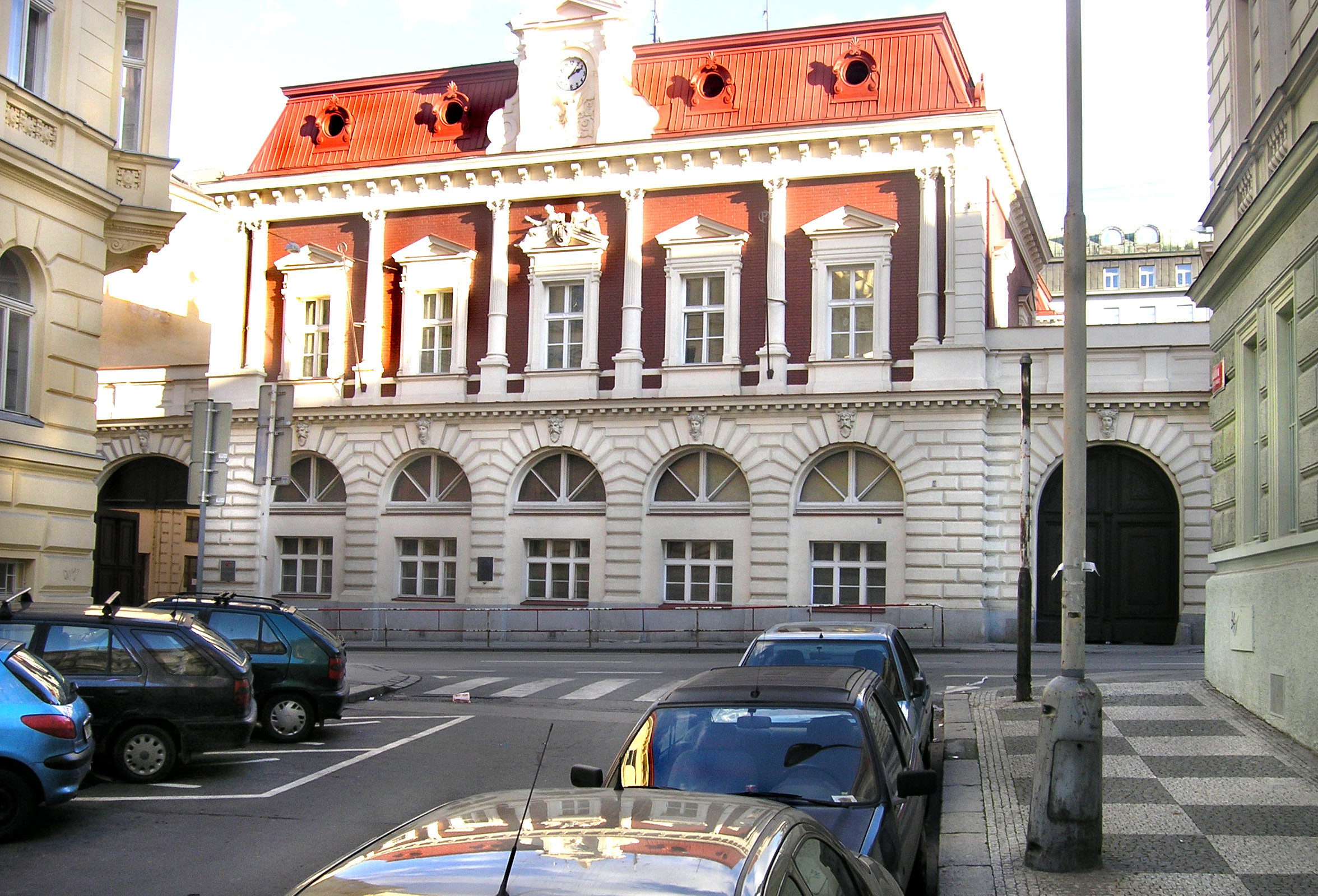 Fire brigade at Sokolská street, Prague